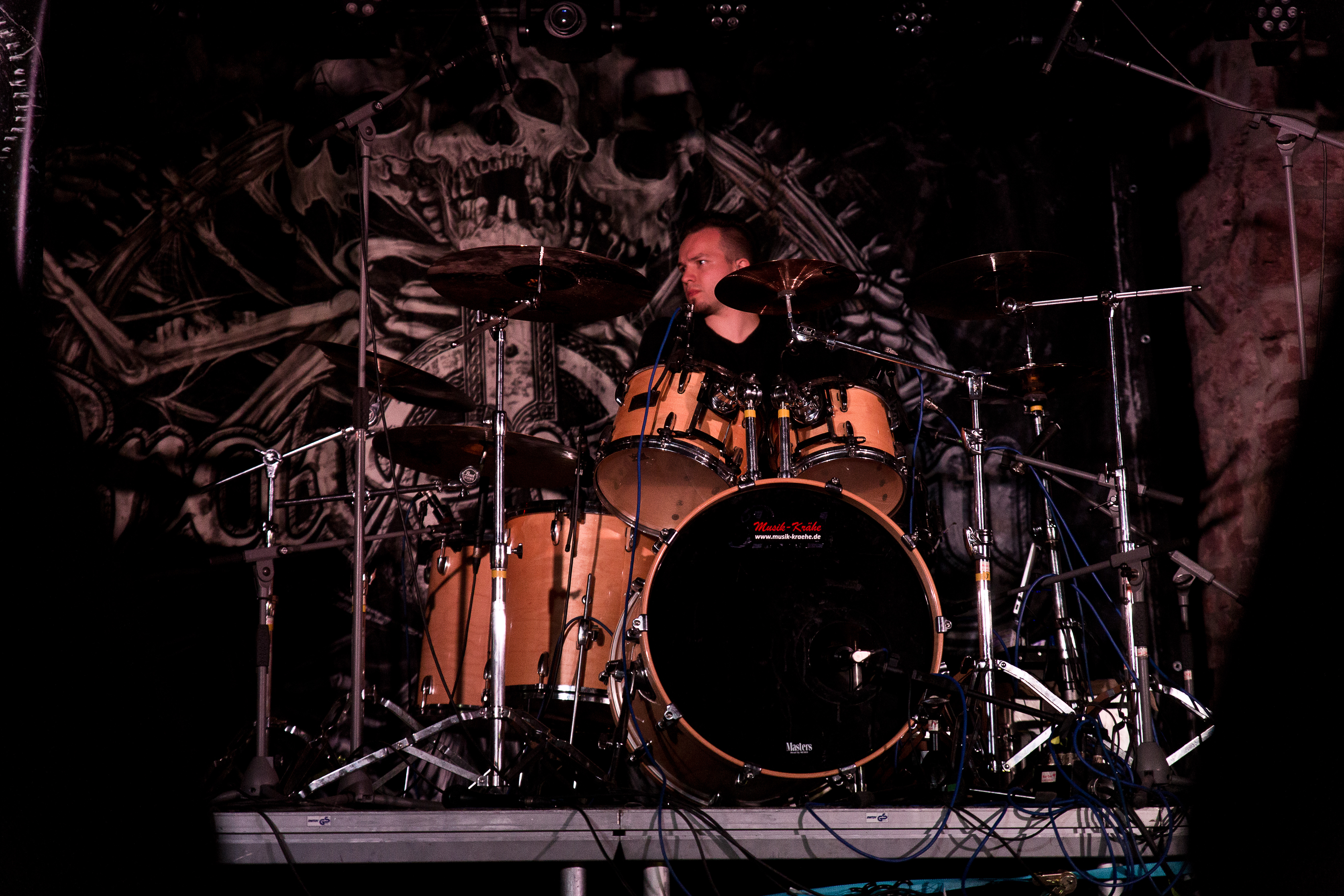 The Italian dark metal band Graveworm at the Dark Troll Open Air 2016 in Bornstedt/Germany.